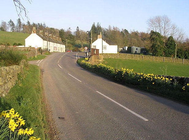 Dalswinton The approach from the west.